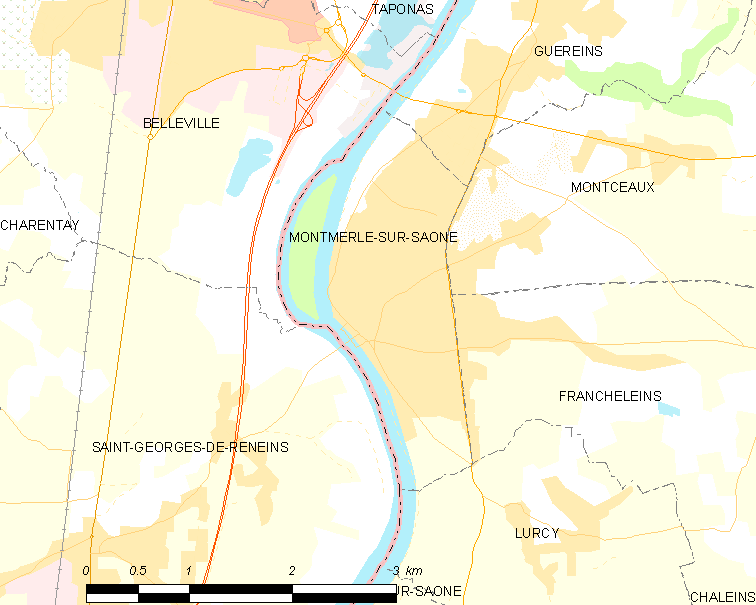 Map of French commune: Montmerle-sur-Saône Map commune FR insee code 01263.png